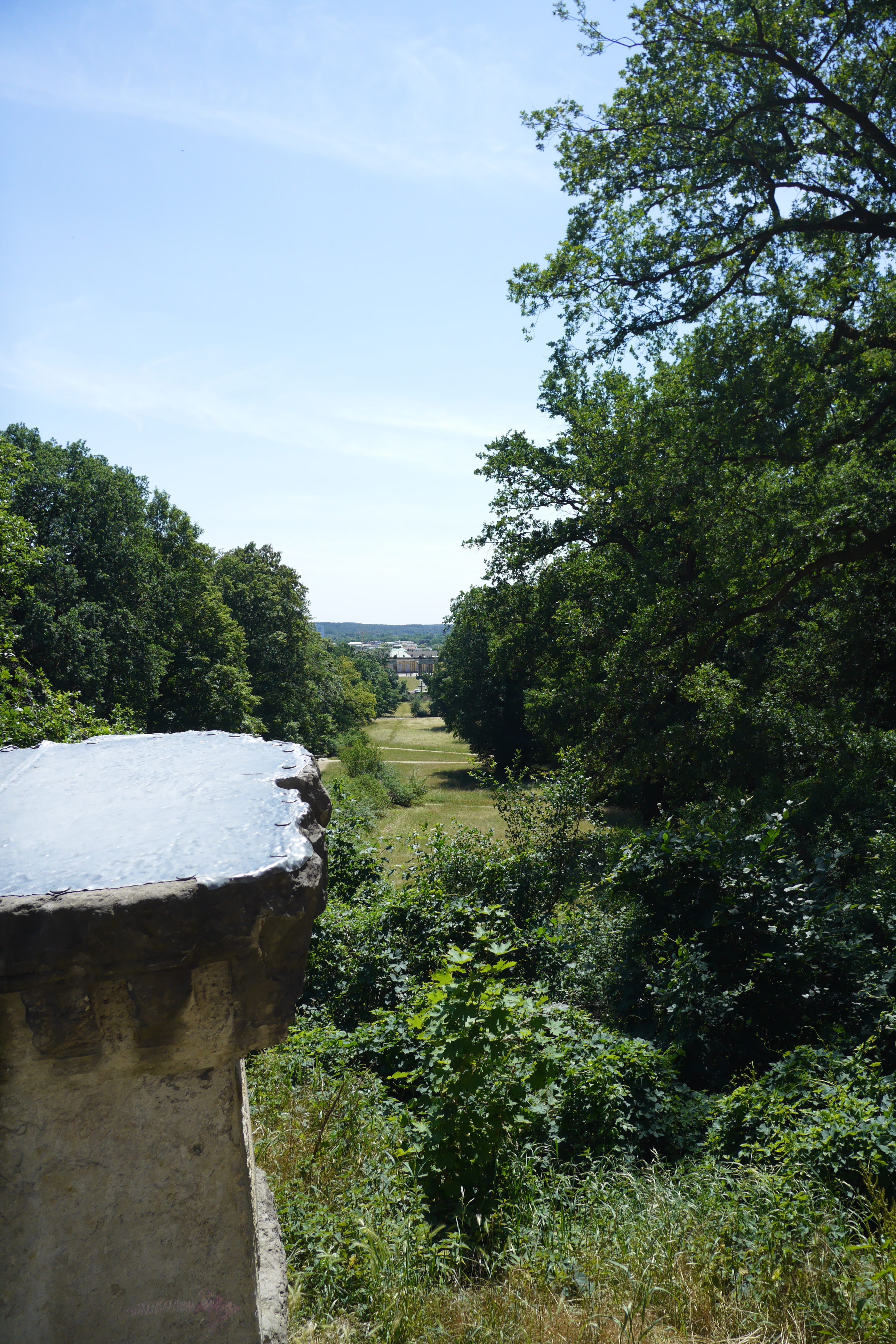 View from Ruinenberg to Sanssouci